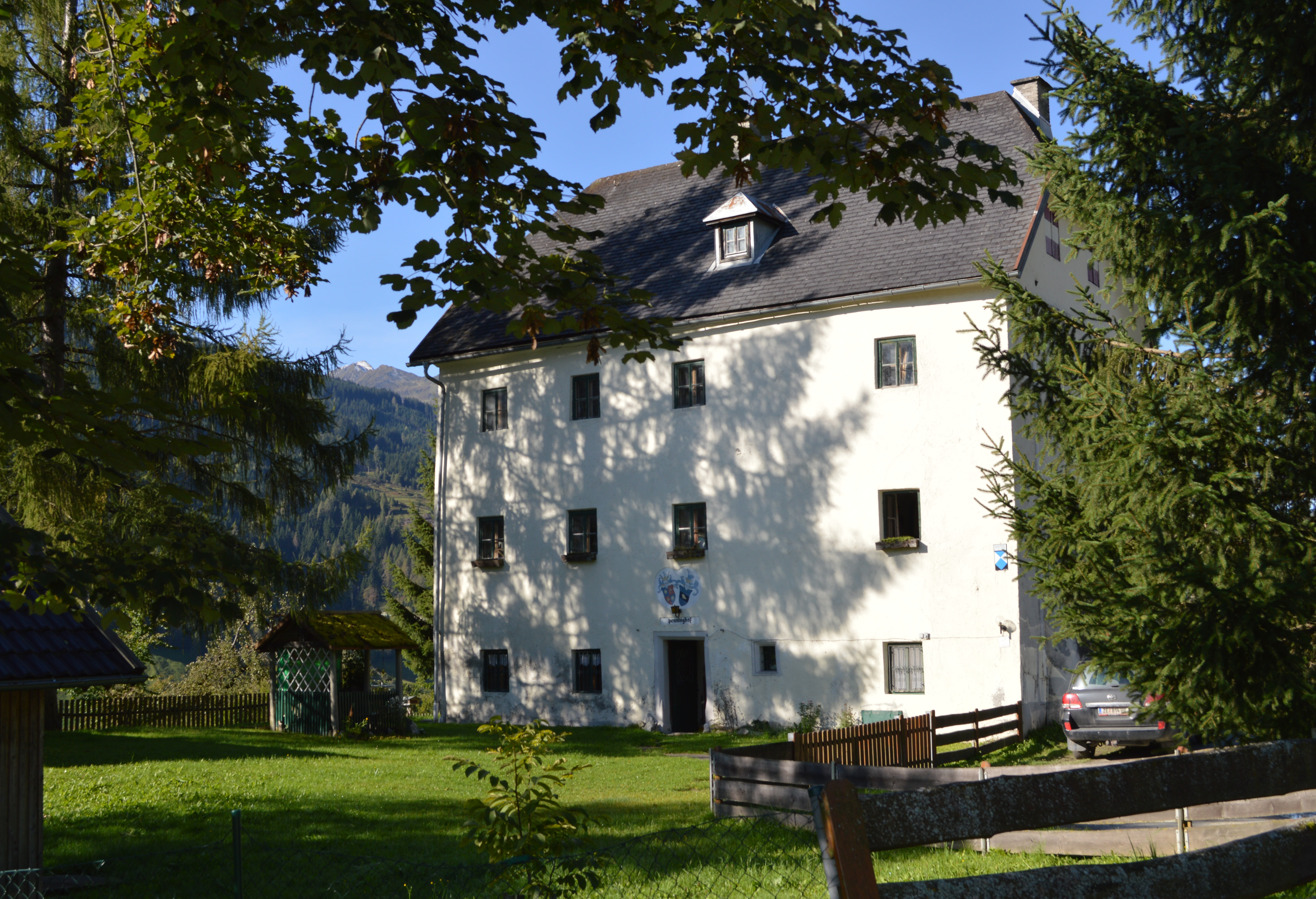 East side of Penninghof, Gschwandtnerberg, Taxenbach, Salzburg (state), Austria